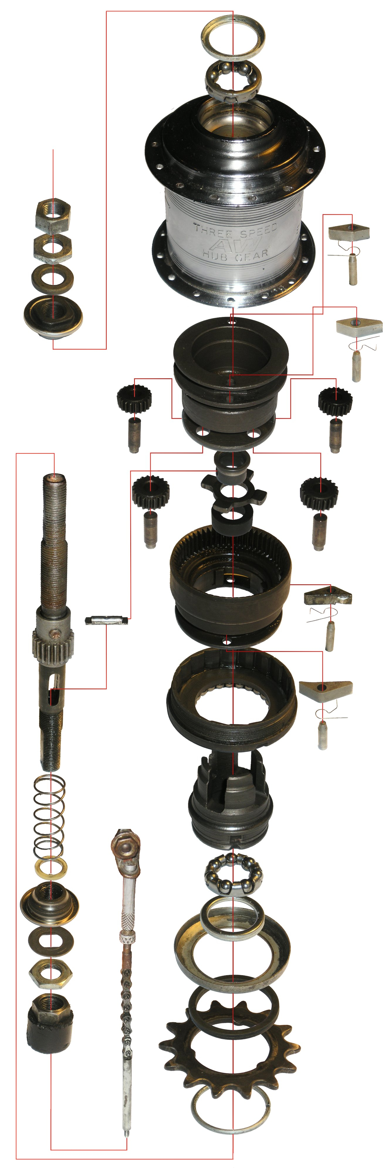 An exploded diagram of a Sturmey Artcher planetary three speed bicycle hub. The photo montage shows all the parts of the AW model, this particular one being manufactured in May 1988.